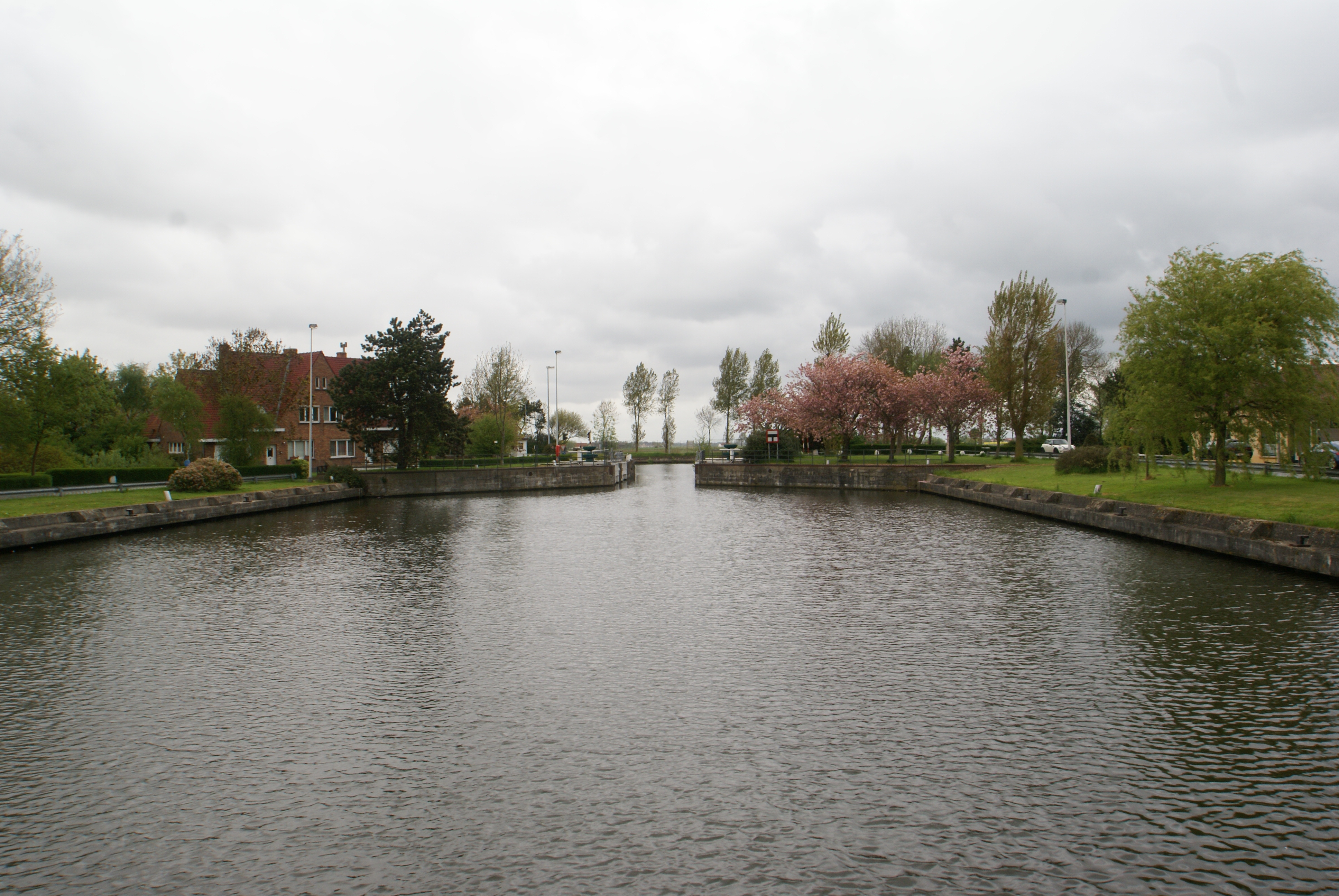 Oudenburg (Belgium): The locks of Plassendale